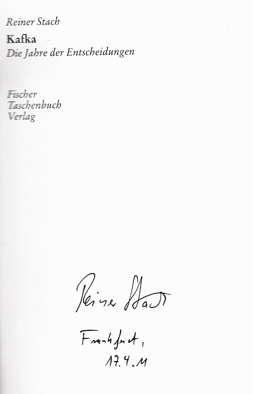 Autograph from Reiner Stach, German writer, 2011 in Frankfurt am Main, Germany.